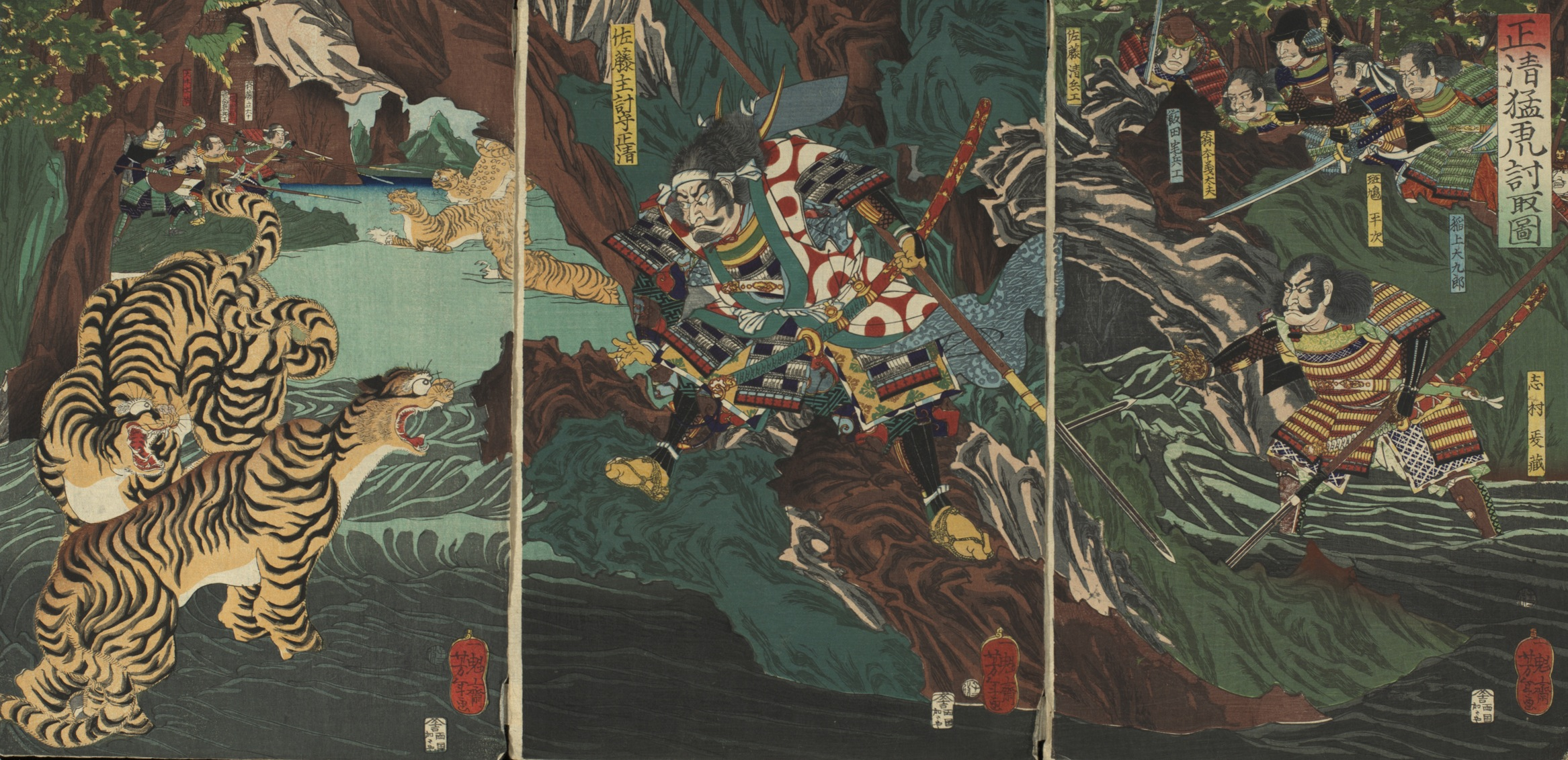 Kato Kiyomasa hunting tigers in Korea during the Imjim war